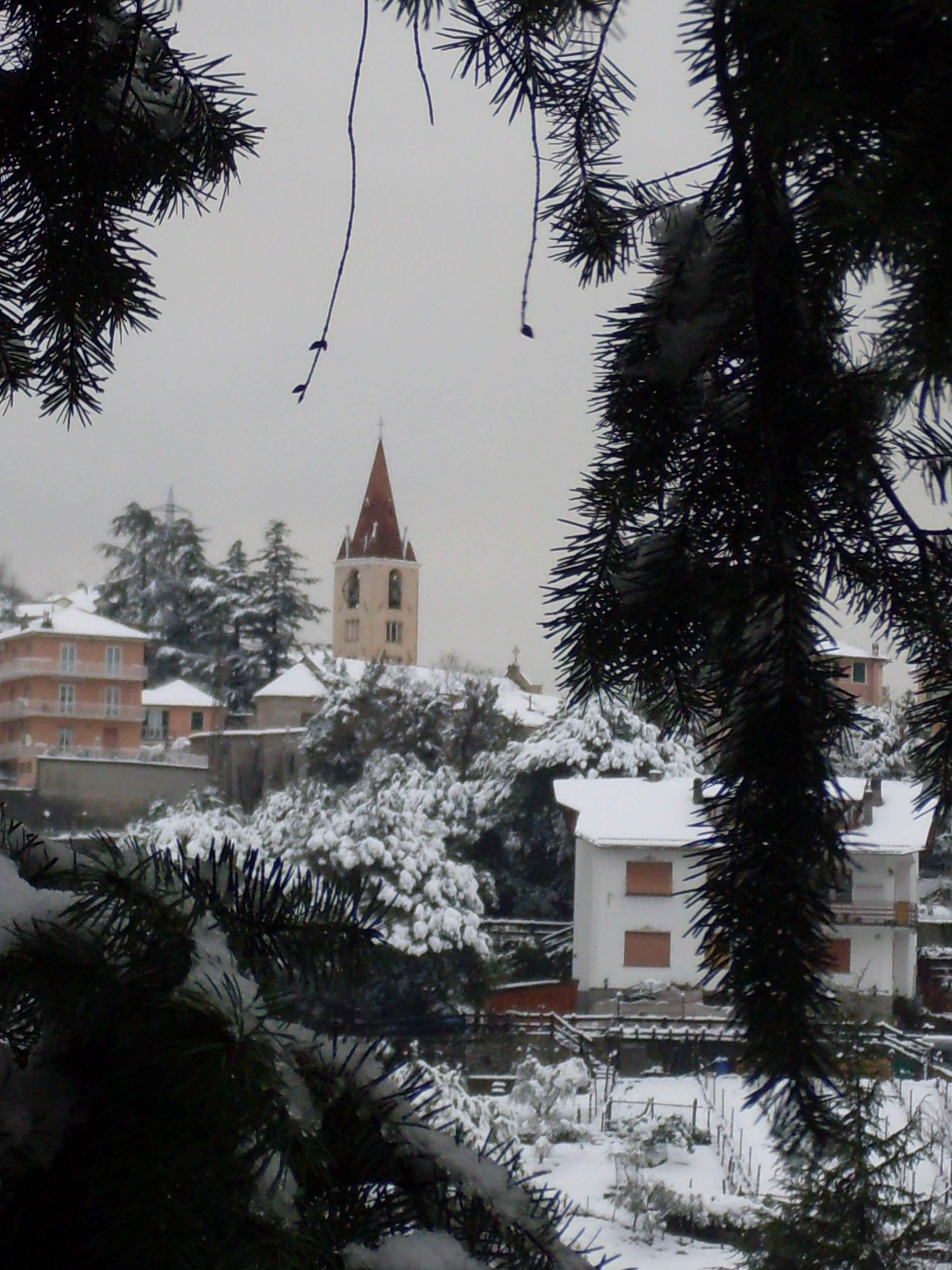 San Cipriano, comune di Serra Riccò (GE), Liguria, Italy